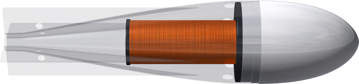 A rendering of an expendable bathythermograph (XBT) instrument which is used to measure the temperature of water in relation to the depth.